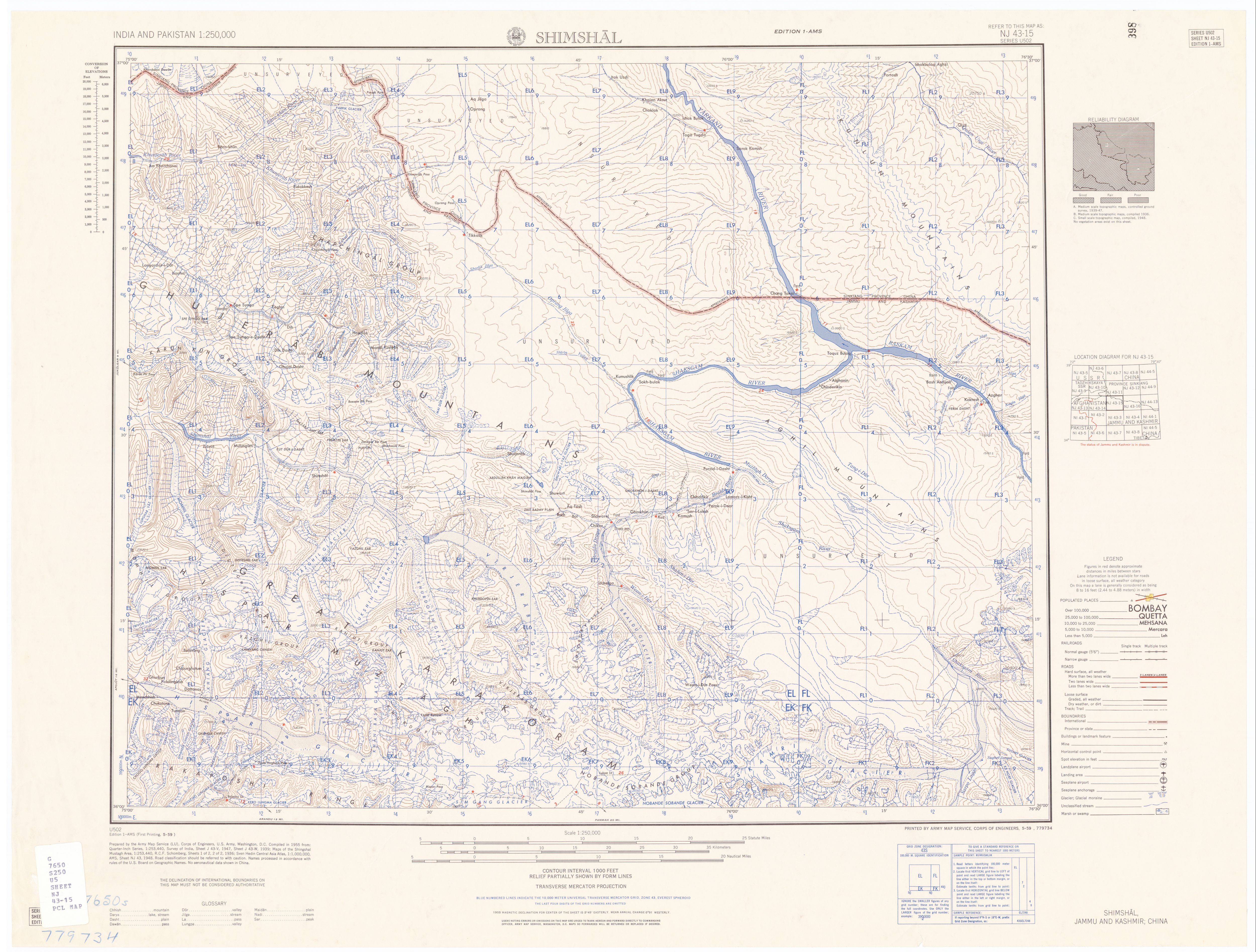 NJ 43-15 Shimshal. Tile of the Map India and Pakistan 1:250,000. Series U502, U.S. Army Map Service, 1955